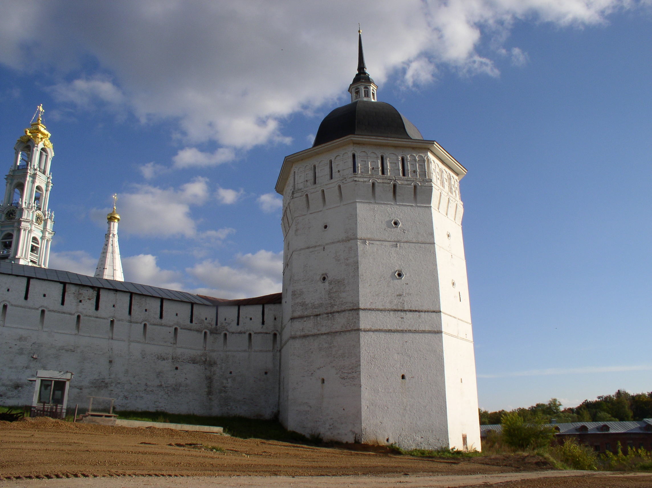 Carpenter Tower. Troitse-Sergiyeva Lavra. Sergiev Posad, Russia.